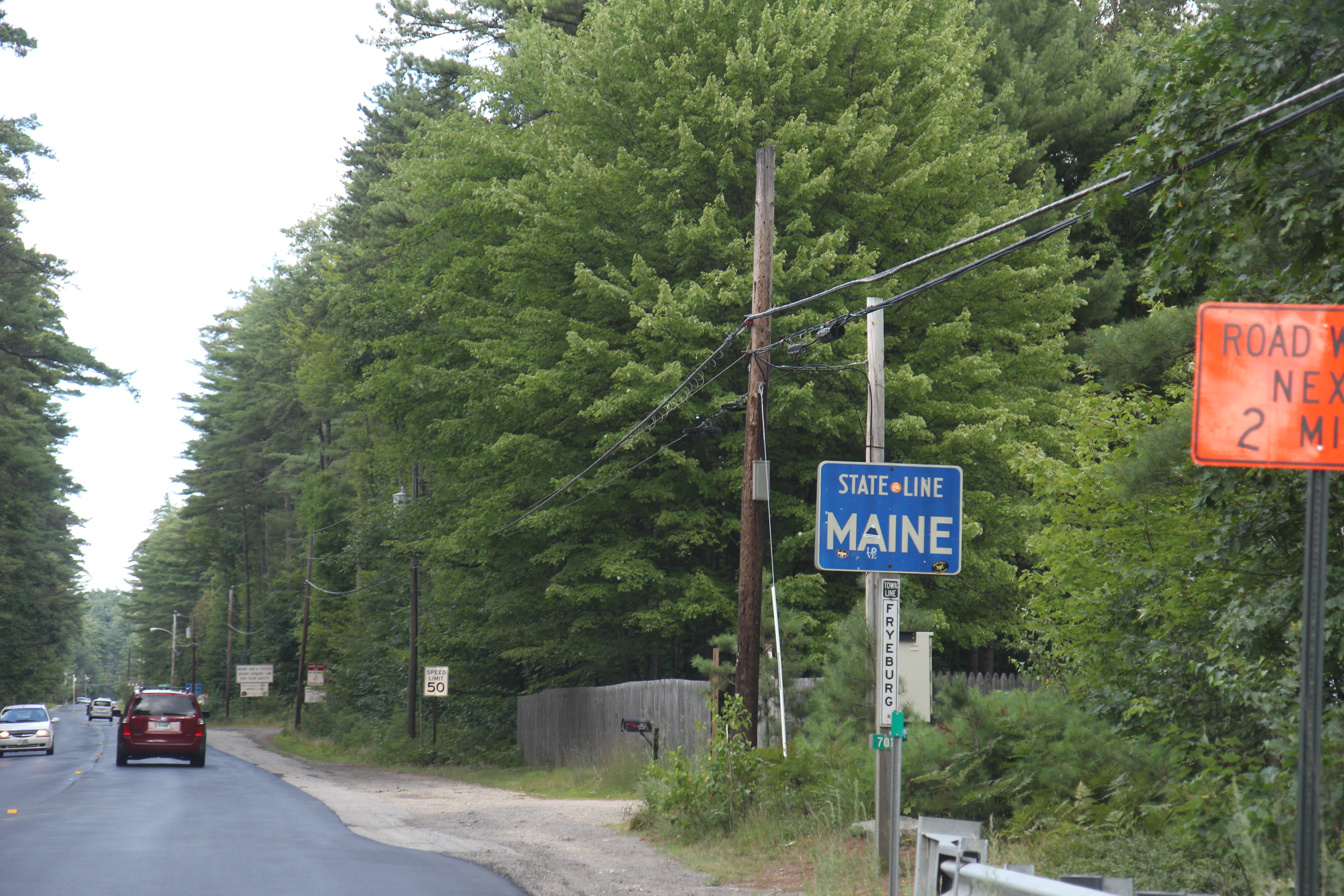 The State border sign for Maine on U.S. Route 302. The road was under construction